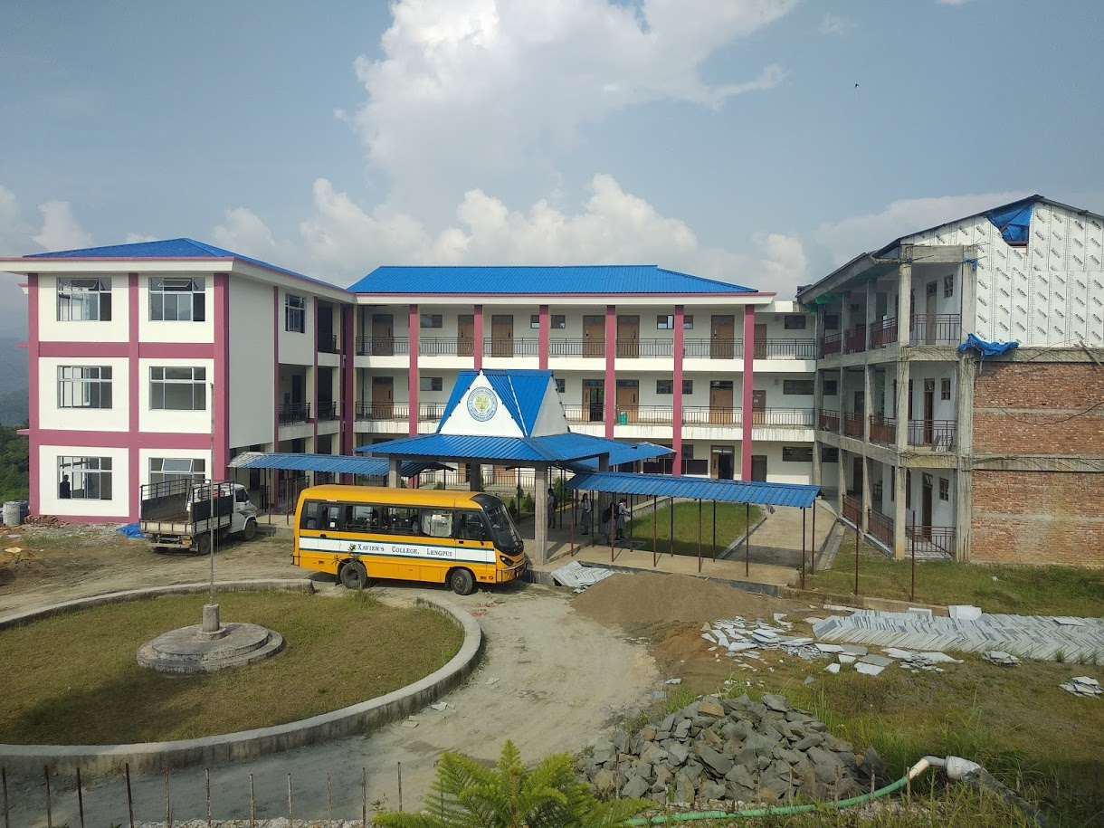 St Xavier Lengpui Campus